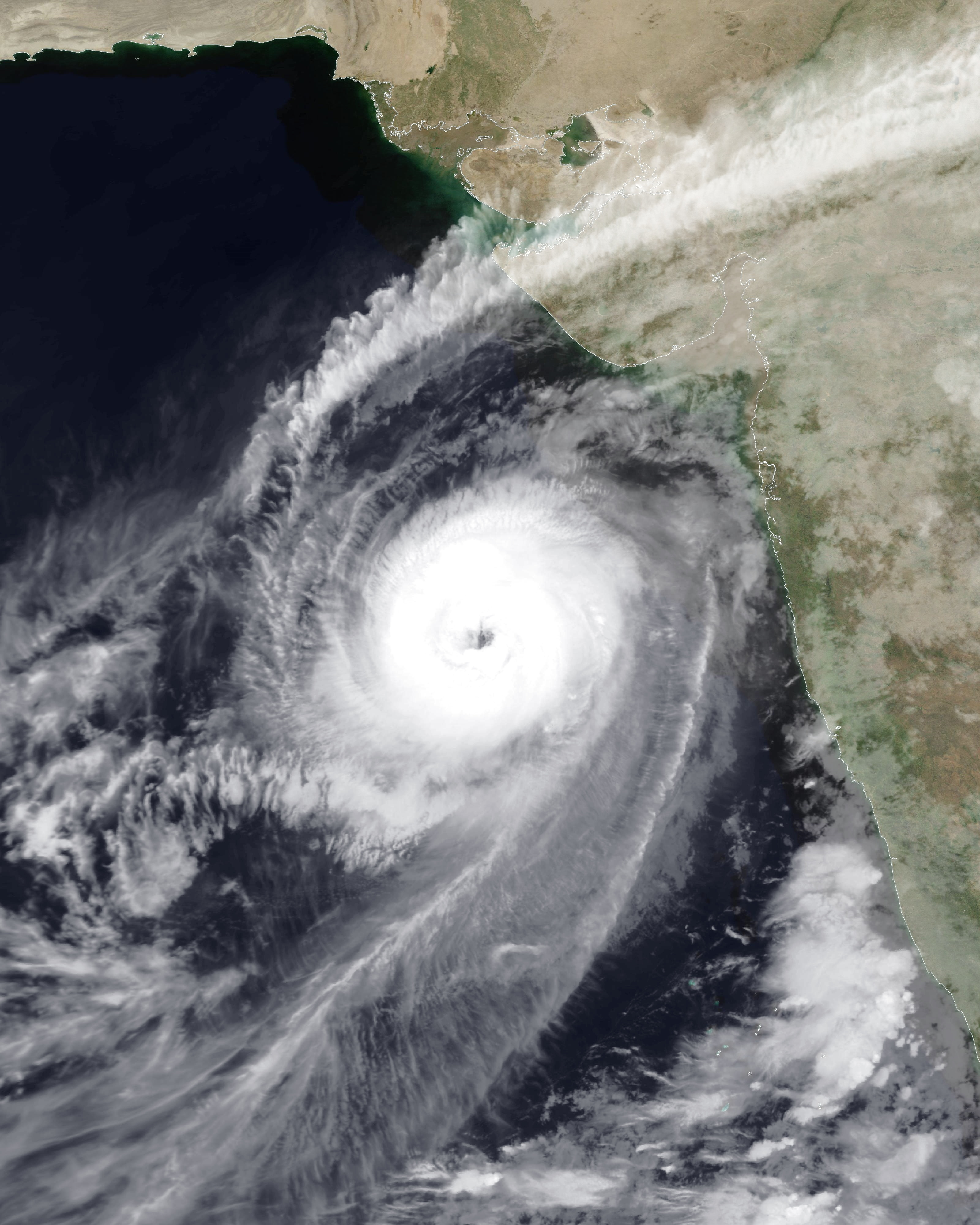 Extremely Severe Cyclonic Storm Kyarr on October 26, 2019